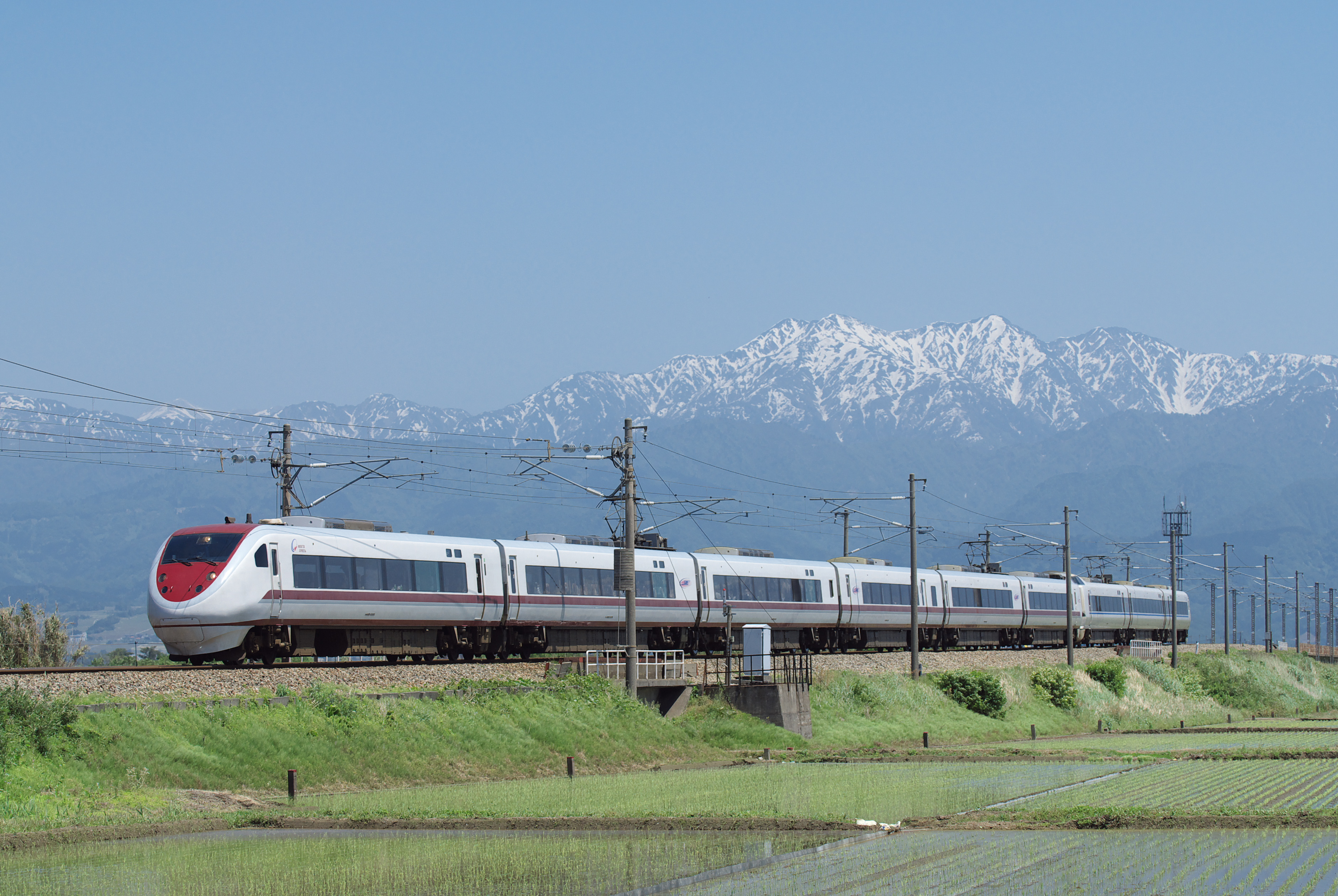 Hoketsu Express 681-2000 series EMU on a "Hakutaka" limited express service